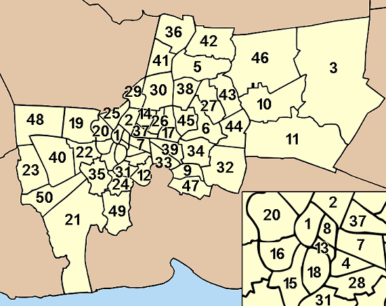 Map of Bangkok, Thailand, with the districts (Khet) numbered Phra Nakhon (พระนคร) Dusit (ดุสิต) Nong Chok (หนองจอก) Bang Rak (บางรัก) Bang Khen (บางเขน) Bang Kapi (บางกะปิ) Pathum Wan (ปทุมวัน) Pom Prap Sattru Phai (ป้อมปราบศัตรูพ่าย) Phra Khanong (พระโขนง) Min Buri (มีนบุรี) Lat Krabang (ลาดกระบัง) Yan Nawa (ยานนาวา) Samphanthawong (สัมพันธวงศ์) Phaya Thai (พญาไท) Thon Buri (ธนบุรี) Bangkok Yai (บางกอกใหญ่) Huai Khwang (ห้วยขวาง) Khlong San (คลองสาน) Taling Chan (ตลิ่งชัน) Bangkok Noi (บางกอกน้อย) Bang Khun Thian (บางขุนเทียน) Phasi Charoen (ภาษีเจริญ) Nong Khaem (หนองแขม) Rat Burana (ราษฎร์บูรณะ) Bang Phlat (บางพลัด) Din Daeng (ดินแดง) Bueng Kum (บึงกุ่ม) Sathon (สาทร) Bang Sue (บางซื่อ) Chatuchak (จตุจักร) Bang Kho Laem (บางคอแหลม) Prawet (ประเวศ) Khlong Toei (คลองเตย) Suan Luang (สวนหลวง) Chom Thong (จอมทอง) Don Mueang (ดอนเมือง) Ratchathewi (ราชเทวี) Lat Phrao (ลาดพร้าว) Watthana (วัฒนา) Bang Khae (บางแค) Lak Si (หลักสี่) Sai Mai (สายไหม) Khan Na Yao (คันนายาว) Saphan Sung (สะพานสูง) Wang Thonglang (วังทองหลาง) Khlong Sam Wa (คลองสามวา) Bang Na (บางนา) Thawi Watthana (ทวีวัฒนา) Thung Khru (ทุ่งครุ) Bang Bon (บางบอน)